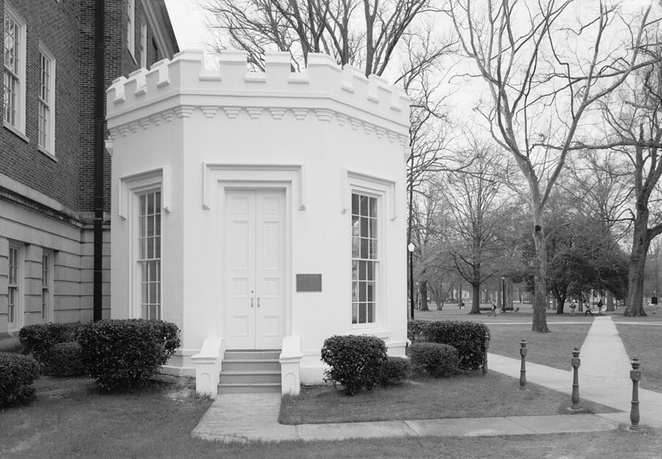 University of Alabama, Guard Tower, Capstone Drive, Tuscaloosa, Tuscaloosa County, AL. EXTERIOR VIEW, FRONT (EAST) ELEVATION. Now commonly known as the Little Round House.